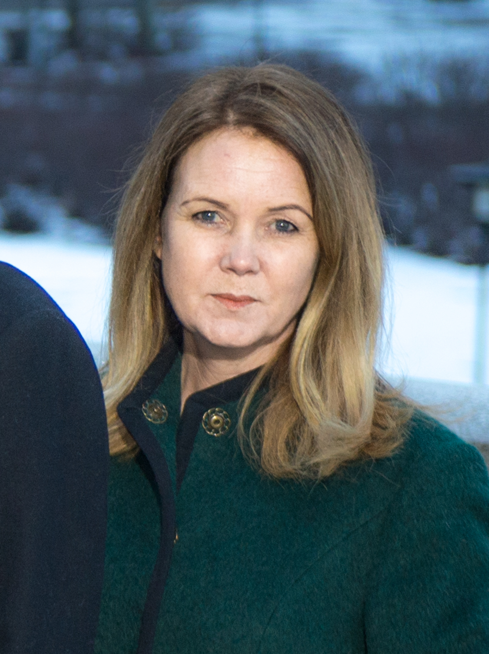 Jennie Nilsson as newly appointed minister in the new Löfven government, at Lejonbacken at Stockholm Castle on January 21, 2019.